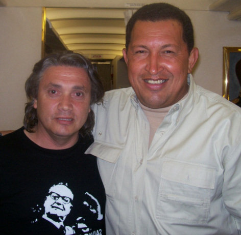 Alejandro Navarro and Hugo Chávez.